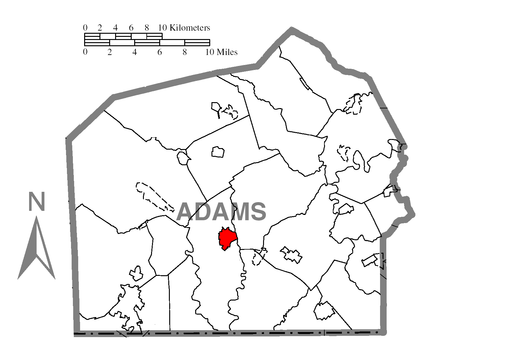 A map of Adams County showing Gettysburg, Pennsylvania (alternate) highlighted on the map.